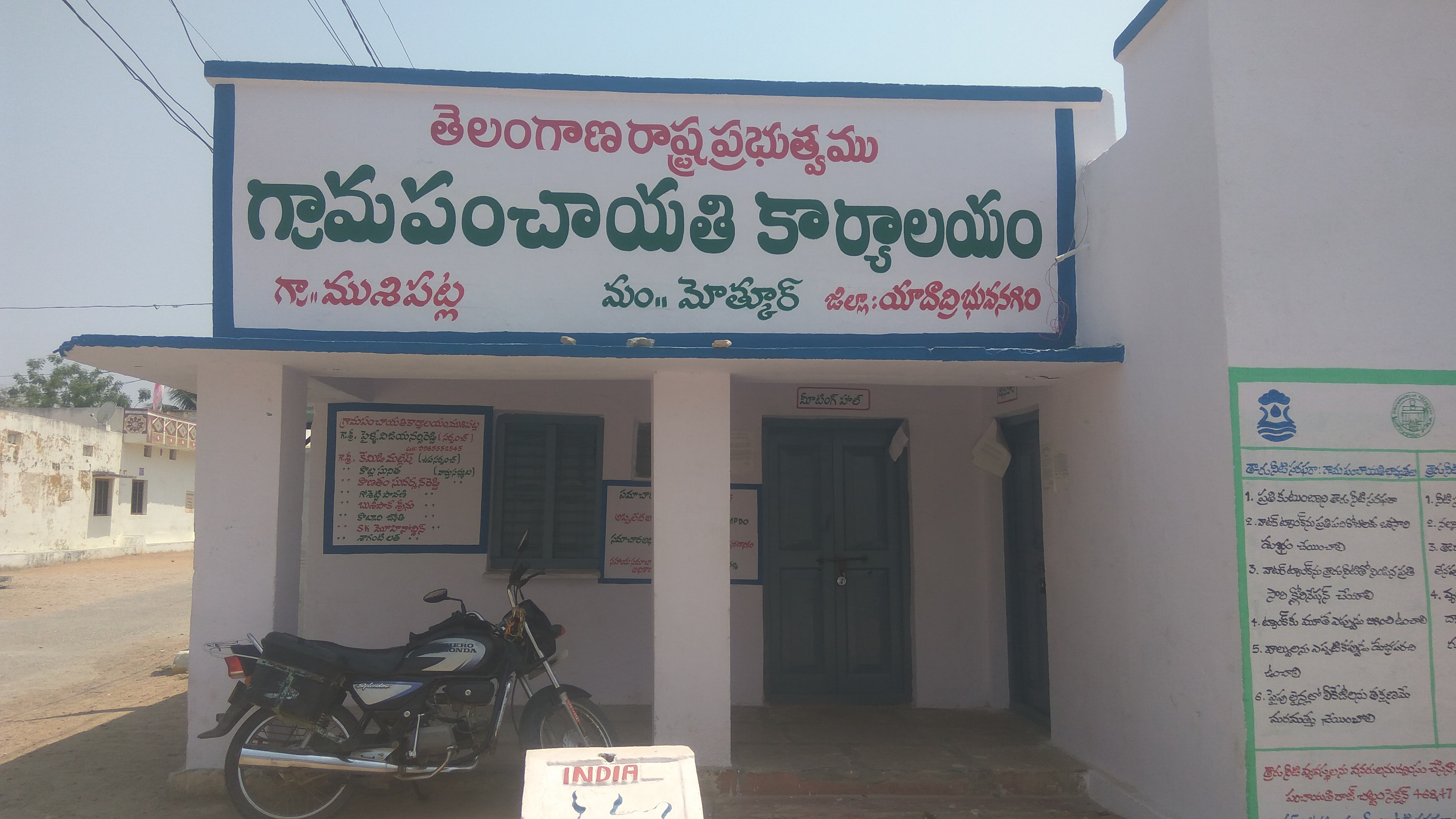 Grama Panchayat Office, Mushipatla, Mothkur mandal, Yadadri Bhuvanagiri district, Telangana state